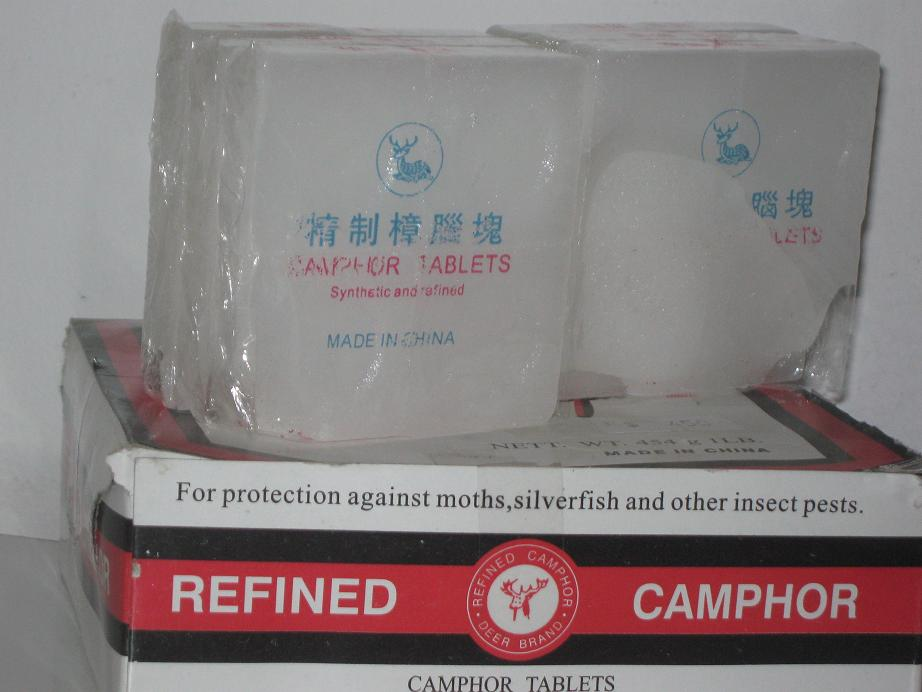 sinthetic and refined camphor (packed in twice) Made in Chine, Deer Brand